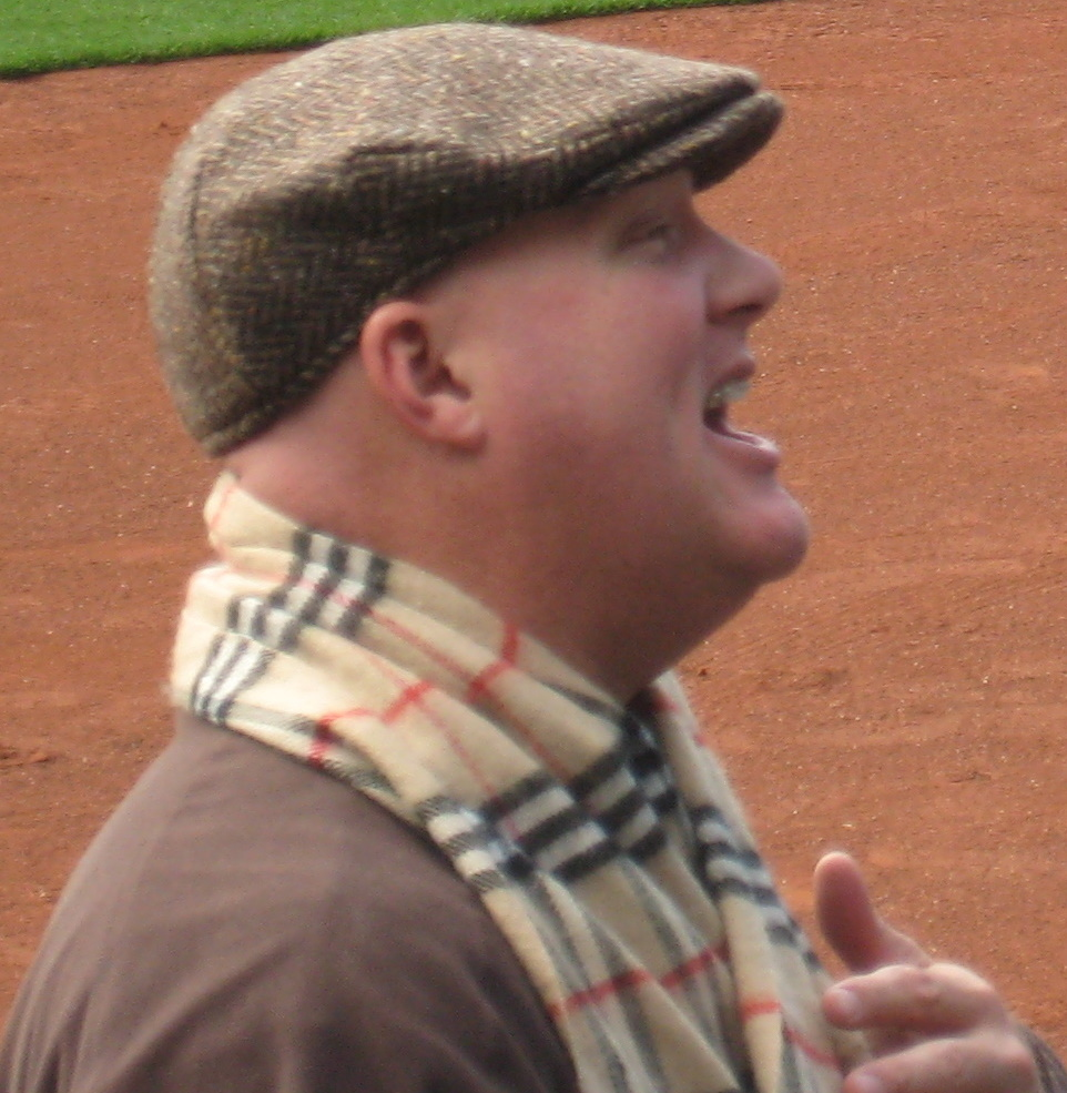 San Diego Padres broadcasters Mark Grant (left) and Matt Vasgersian in the dugout at Petco Field before a 2008 Padres game